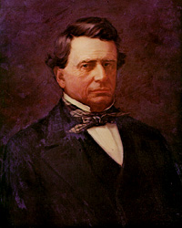 John Wesley Davis, Speaker of the House of Representatives